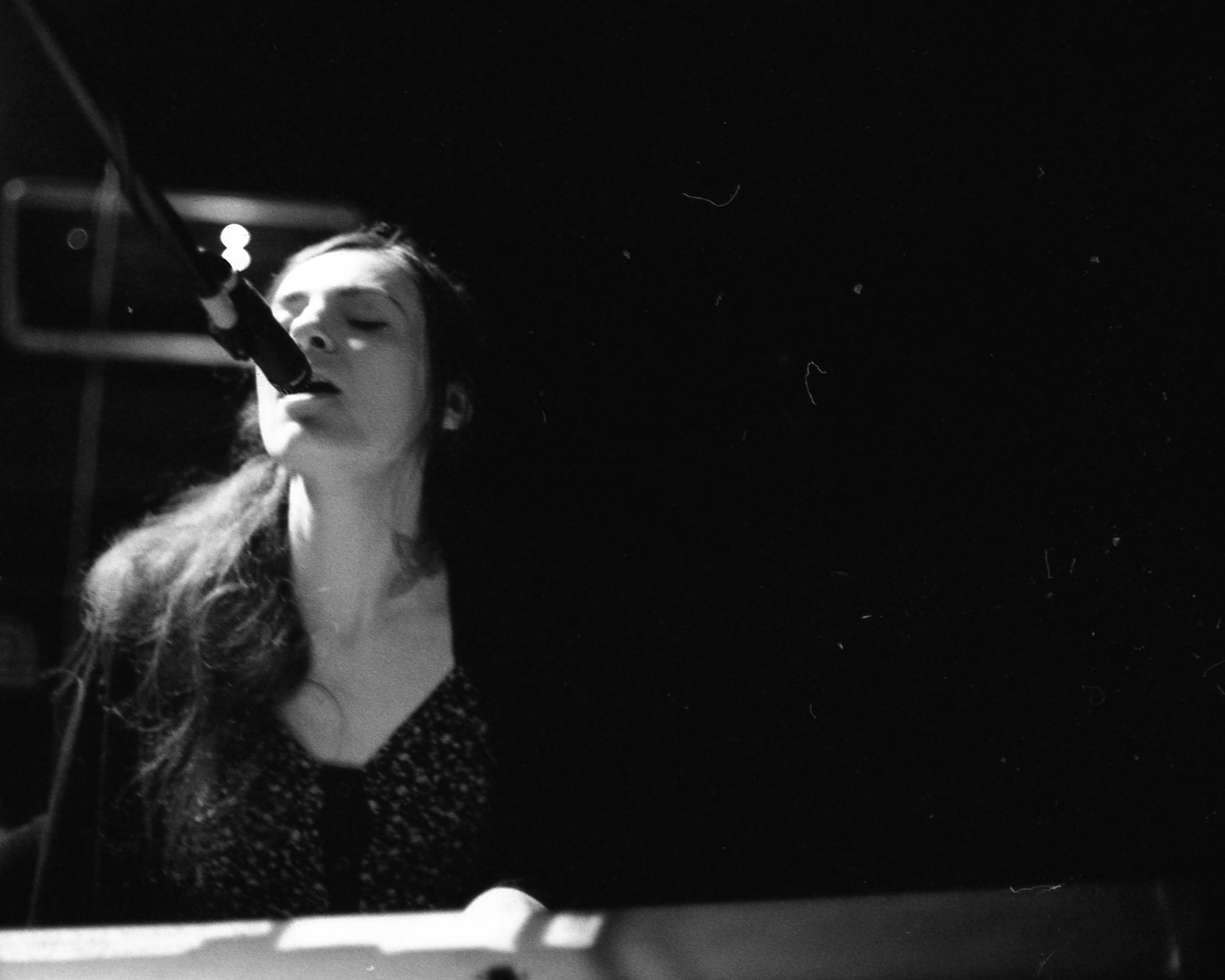 Faith Coloccia of Mamiffer performing live in 2015